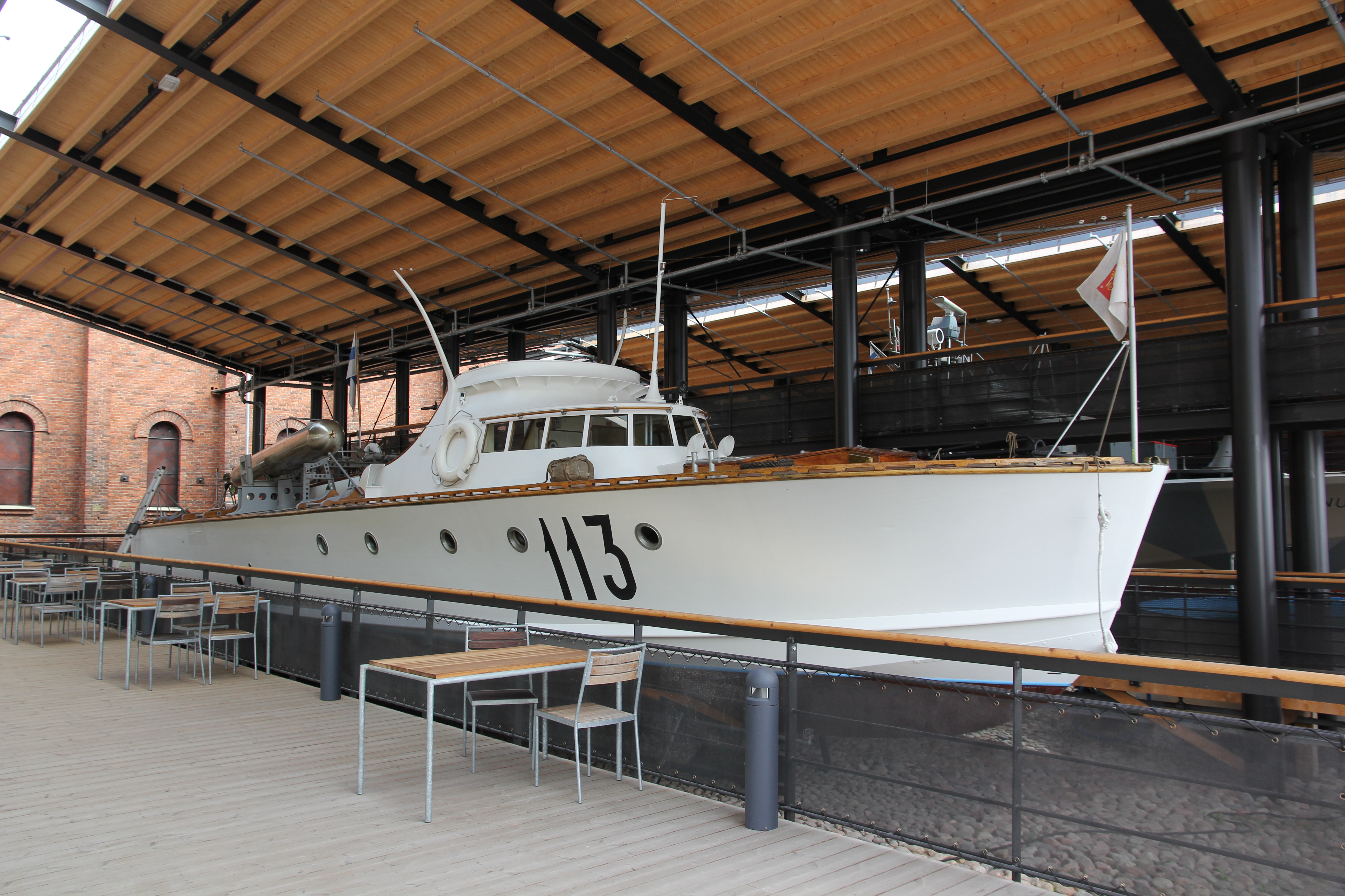 Motor torpedo boat Taisto 3, ex Tyrsky preserved in Forum Marinum maritime museum.